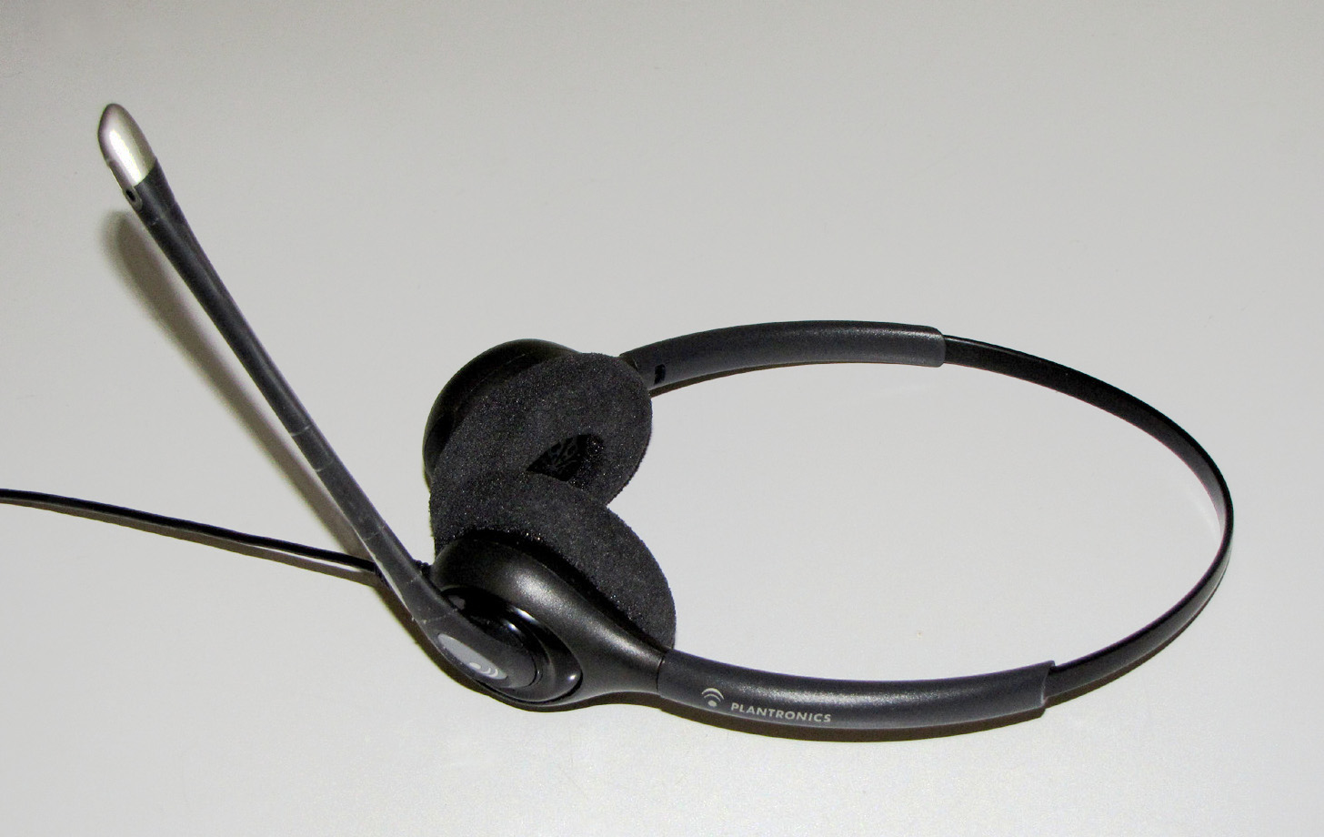 A headset by Plantronics.